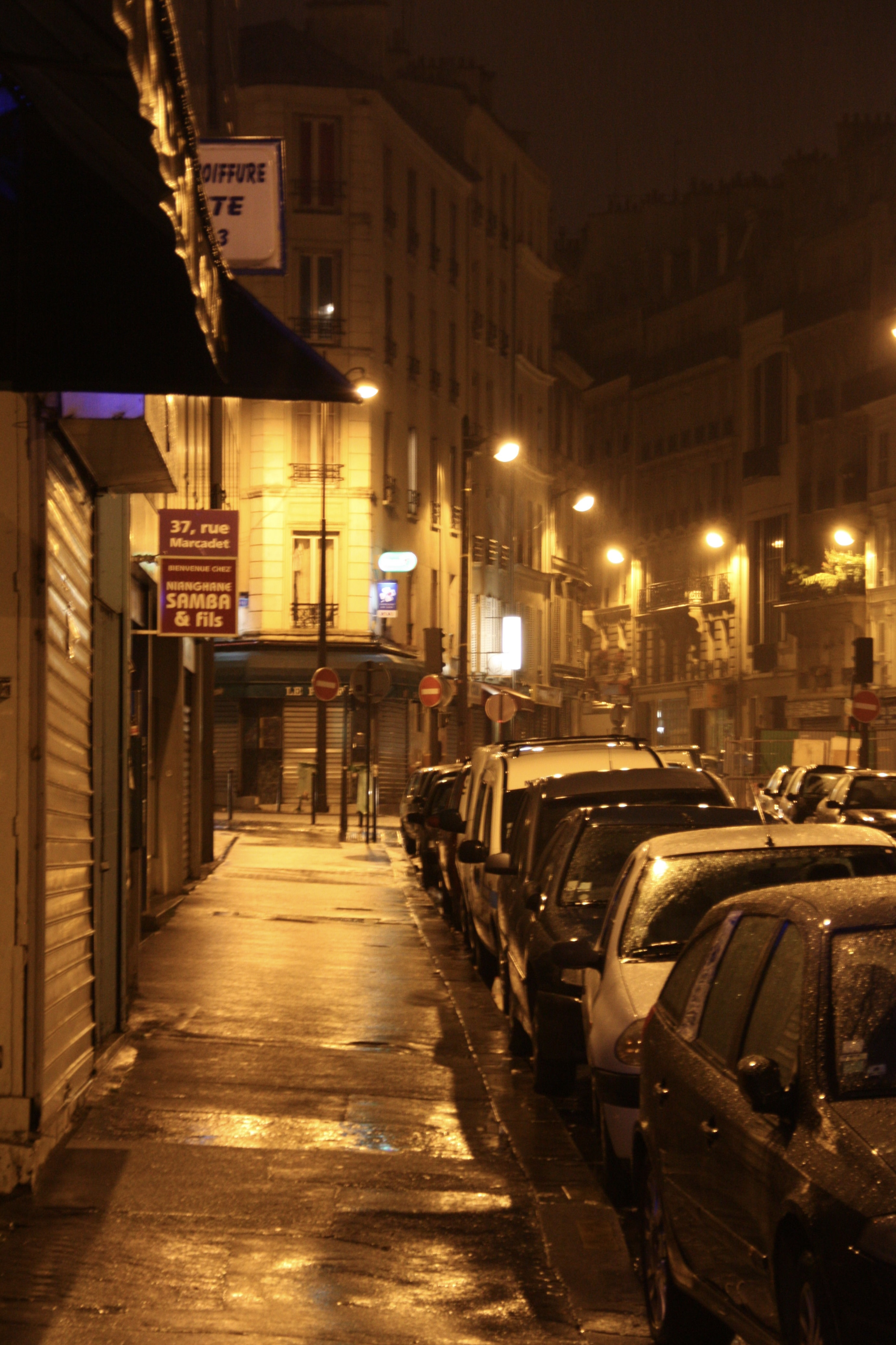 A rainy evening in rue Marcadet, Paris, september 2008